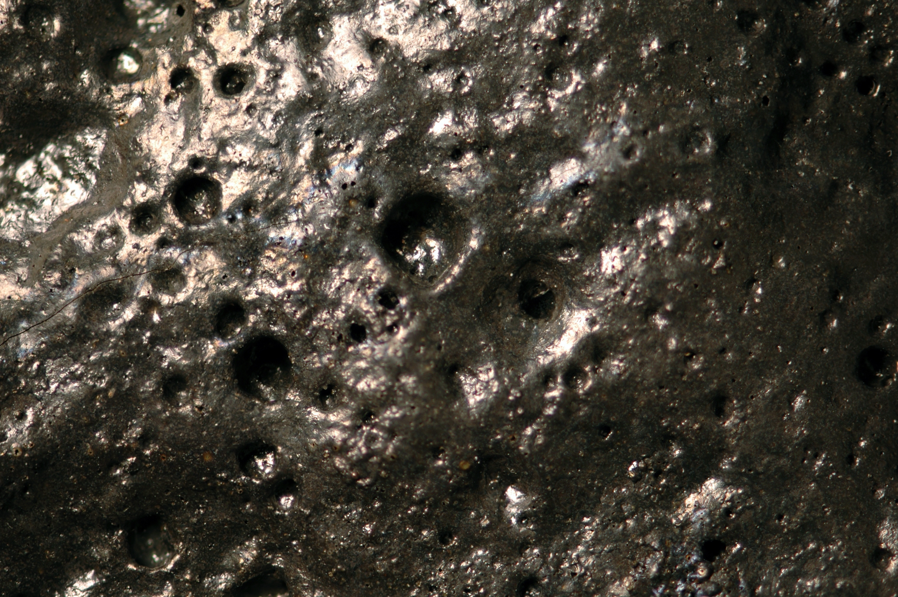 Tachylite from the upper Holocene of Hawaii. (field of view ~4.2 cm across) Mt. Kilauea is the world’s most active volcano. It sits atop the Hawaii Hotspot in the central Pacific Ocean. It had a decades-long eruption from 1983 to 2018. Kilauea lavas are basaltic in composition, but the physical appearance of Kilauea’s output varies tremendously. Many of Kilauea’s ongoing basaltic eruptions have occurred along its East Rift Zone, a fracture system extending ~eastward from the summit vent area. The rock shown here is from the thin ceiling of a lava tube that was active during the 1969 to 1974 eruption of the Mauna Ulu Vent. The Mauna Ulu Lava Field is located along Kilauea’s East Rift Zone. This lava tube ceiling specimen ranges from 1 to 3.5 cm thick. The photo depicts the interior (lower) surface of a lava tube ceiling. Unlike the external surface (see elsewhere in this photo album), the inside roof of the lava tube doesn’t display stretched textures. The heat inside the lava tube was sufficient to partially re-melt already solidified lava, resulting in a relatively smooth and lustrous surface, somewhat like chocolate cake batter. The blackish-colored basaltic glass is called tachylite. Locality: 1969 to 1974 lava tube ceiling, Mauna Ulu Lava Field, East Rift Zone, Kilauea Volcano, Hawaii Hotspot, central Pacific Basin